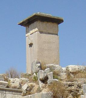 The Harpy Tomb in Xanthos showing the replacement relief carvings. The originals were taken by Fellows in the 19th century and are now on display in the British Museum.